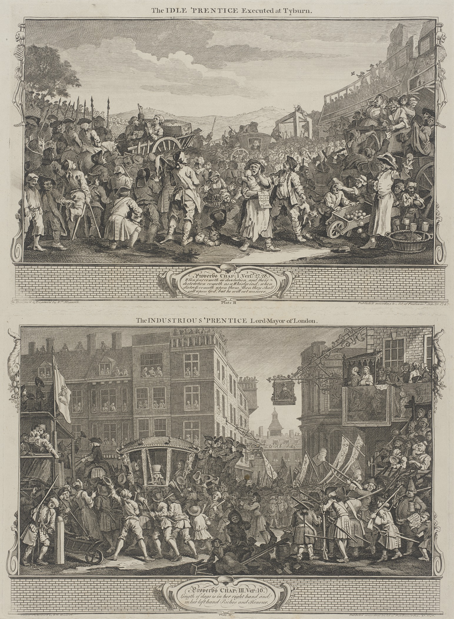 England, 1747 Series: Industry and Idleness, plate 11 Prints; engravings Engraving Gift of Miss Bella Mabury (M.46.5.10) Prints and Drawings